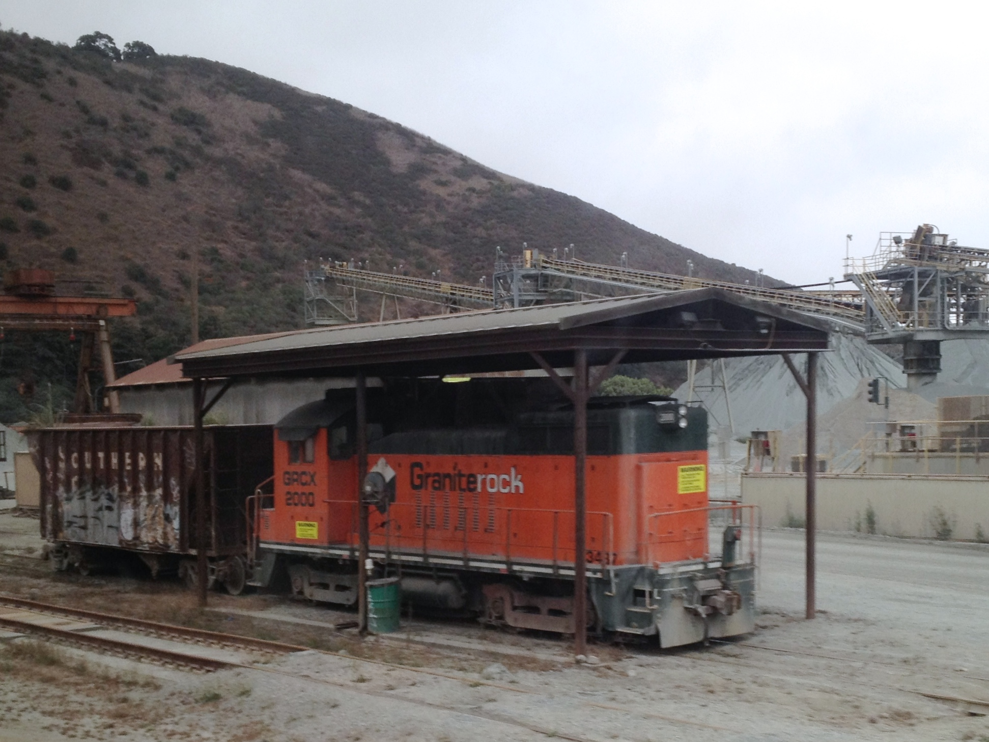 Graniterock train engine and hopper car in Aromas, California.